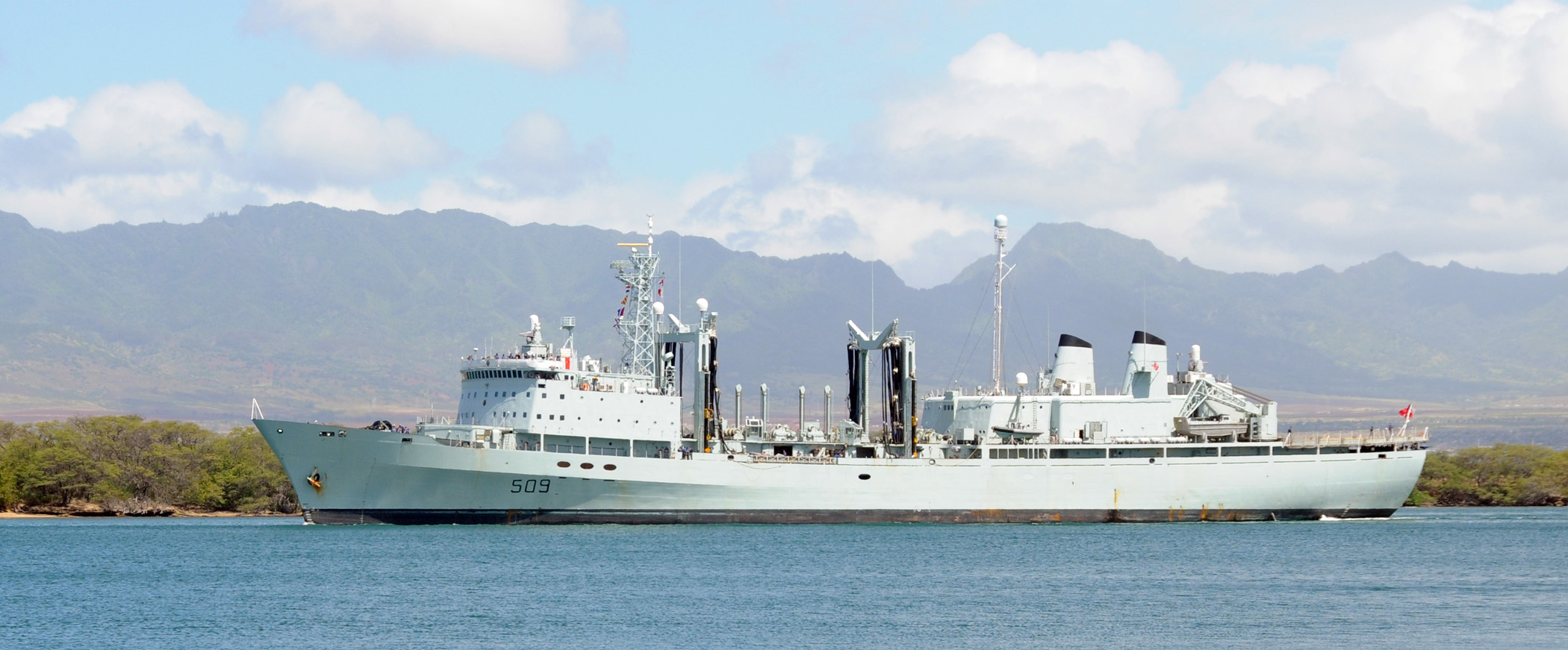 PEARL HARBOR (June 23, 2009): The Canadian Navy auxiliary replenishment oiler HMCS Protecteur (AOR 509) departs Naval Station Pearl Harbor after a routine port visit. Protecteur provides Canadian and allied warships with fuel, food and supplies and is the only Canadian Navy supply ship stationed on the Pacific Coast.